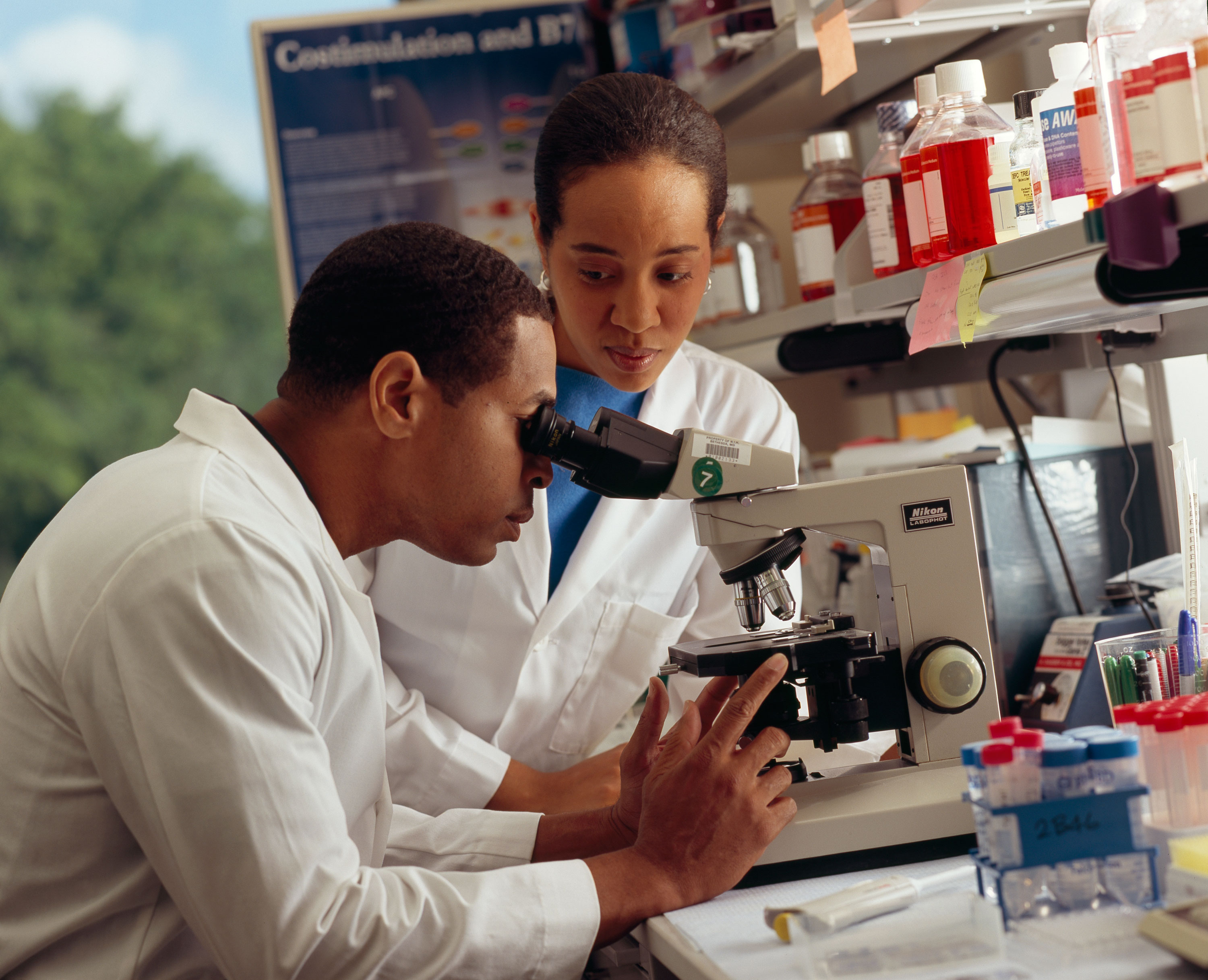 Title Researcher Looking Through Microscope Description An African American male researcher looks through a microscope as an African-American female researcher looks on. Topics/Categories Locations -- NIH National Cancer Institute -- People People -- Health Professional Science and Technology -- Laboratory Techniques/Equipment Type Color, Photo Source National Cancer Institute